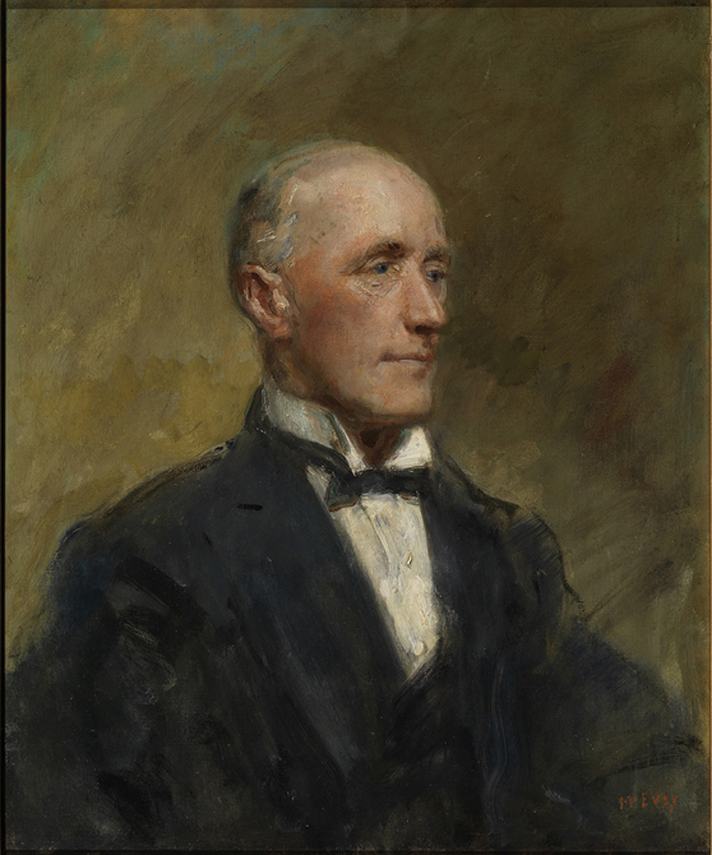 Cecil Baring, 3rd Lord Revelstoke (1867-1934)